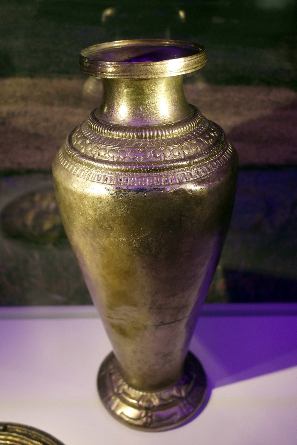 Ancient silver amphora, discovered during construction work of the Zuid-Willemsvaart in 1828 in the river Meuse near Neerharen, Limburg, then in the Netherlands, after 1830 in Belgium. The bottom of the vessel contains inscriptions in Latin and Greek, which have not yet been deciphered. The object probably originates from Southern Europe after 500 BC and is now in the collection of the Rijksmuseum van Oudheden in Leiden. This photo was taken during the temporary exhibition Topstukken van het Rijksmuseum van Oudheden in the Limburgs Museum in Venlo, while the museum in Leiden was closed for renovations.